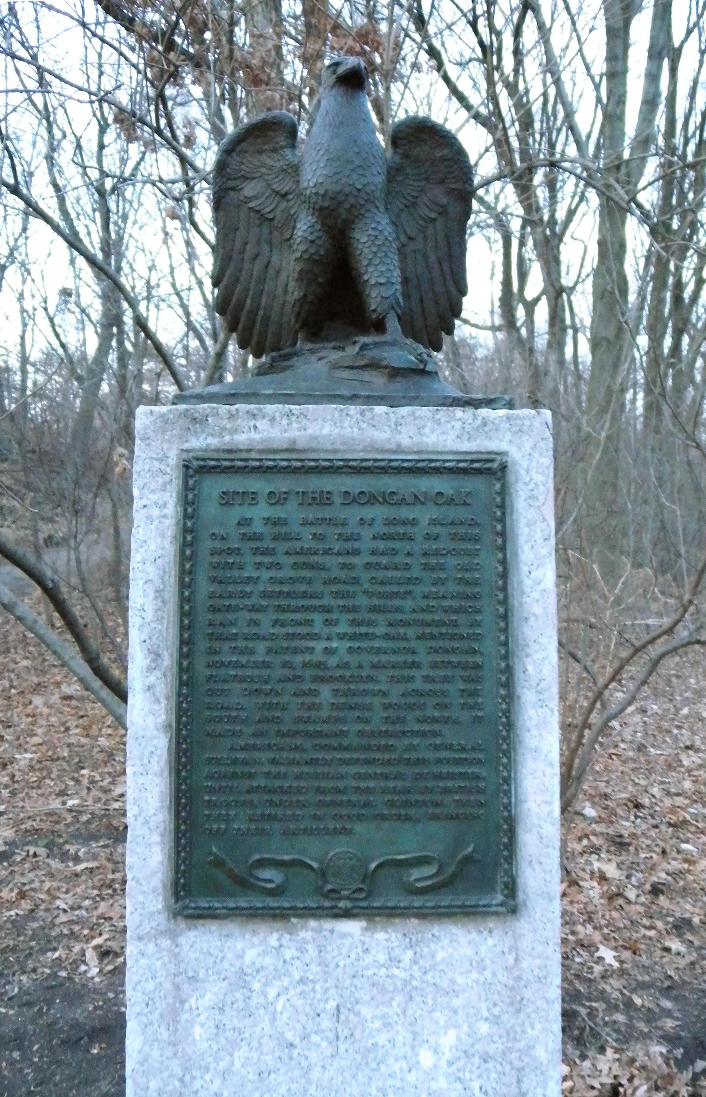 Looking north in deep twilight at eagle monument to Lord Dongan's Oak on the east side of Prospect Park east drive. EXIF date is wrong due to photographr's error.